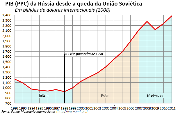 Translation of the following chart